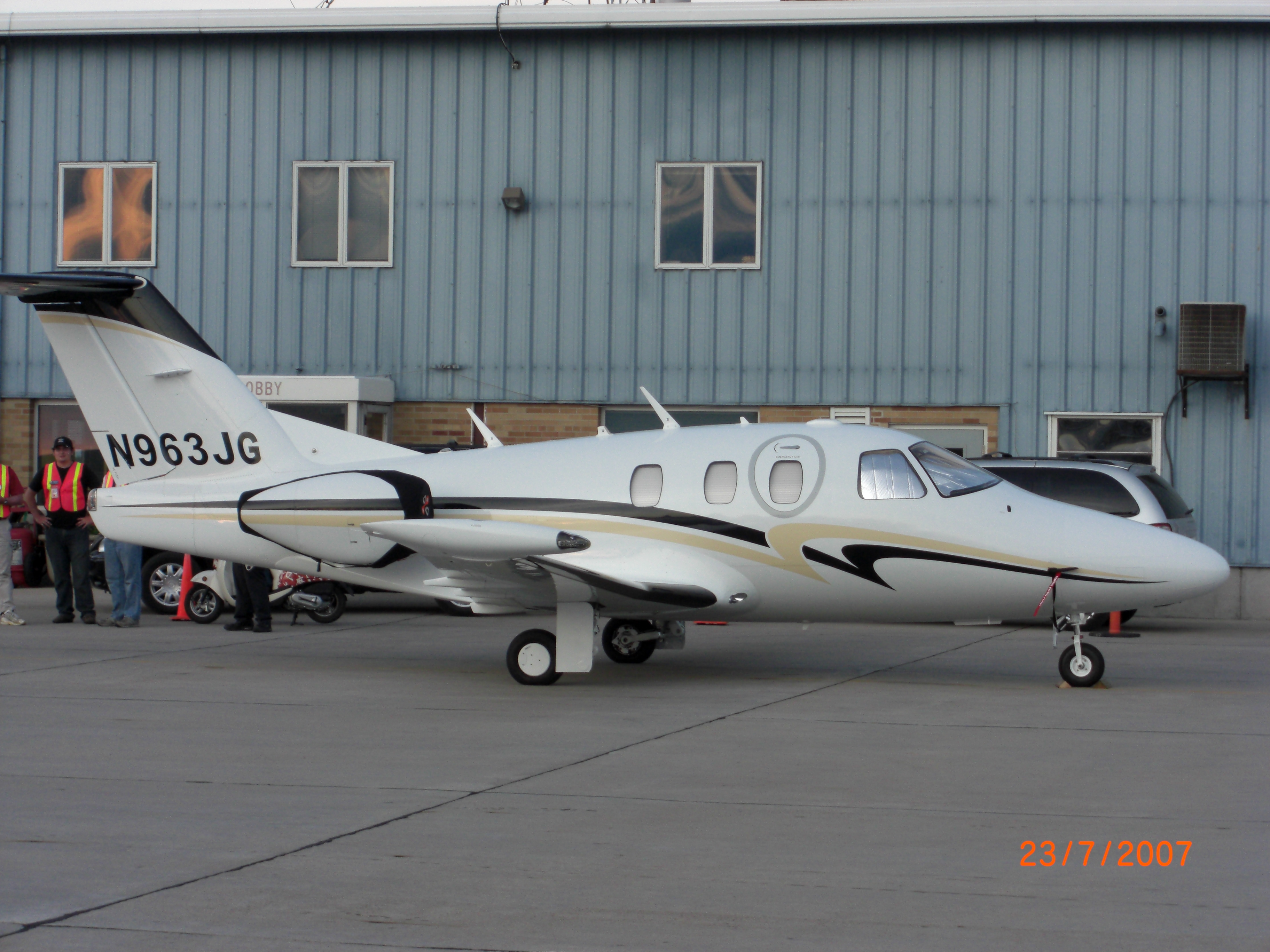 Eclipse 500 at Oshkosh Air Show in 2007